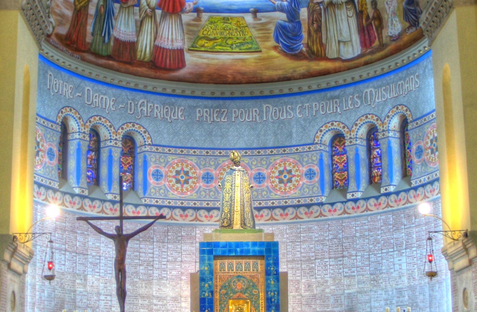 Interior of the Notre Dame d'Afrique basilica in Algiers, Algeria